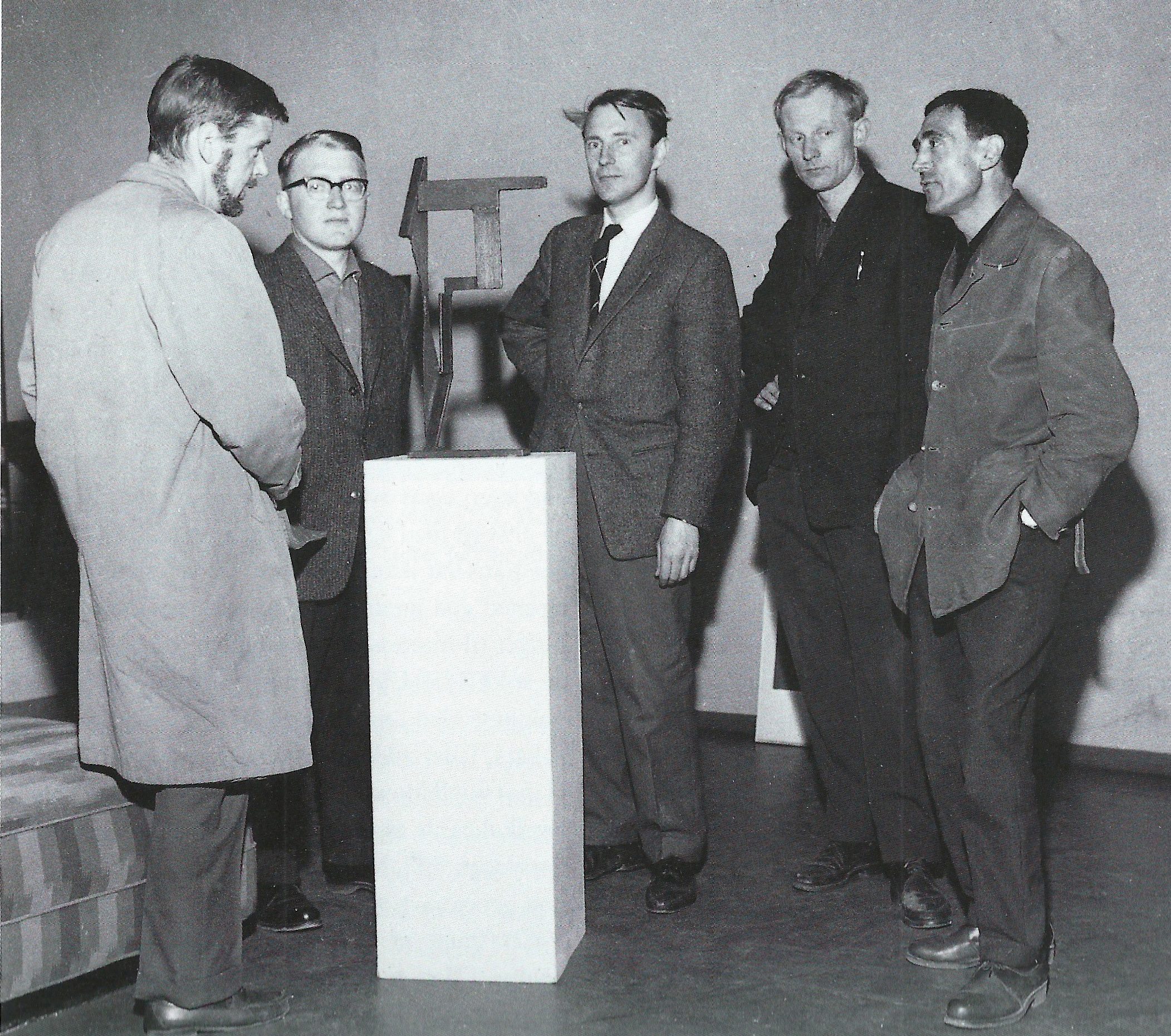 The Norwegian artist group «Gruppe 5» in May 1961, photographed in connection with their first joint exhibition. The artists are, from left to right: Lars Tiller, Halvdan Ljøsne, Roar Wold, Håkon Bleken and Ramon Isern. The sculpture is made by Isern